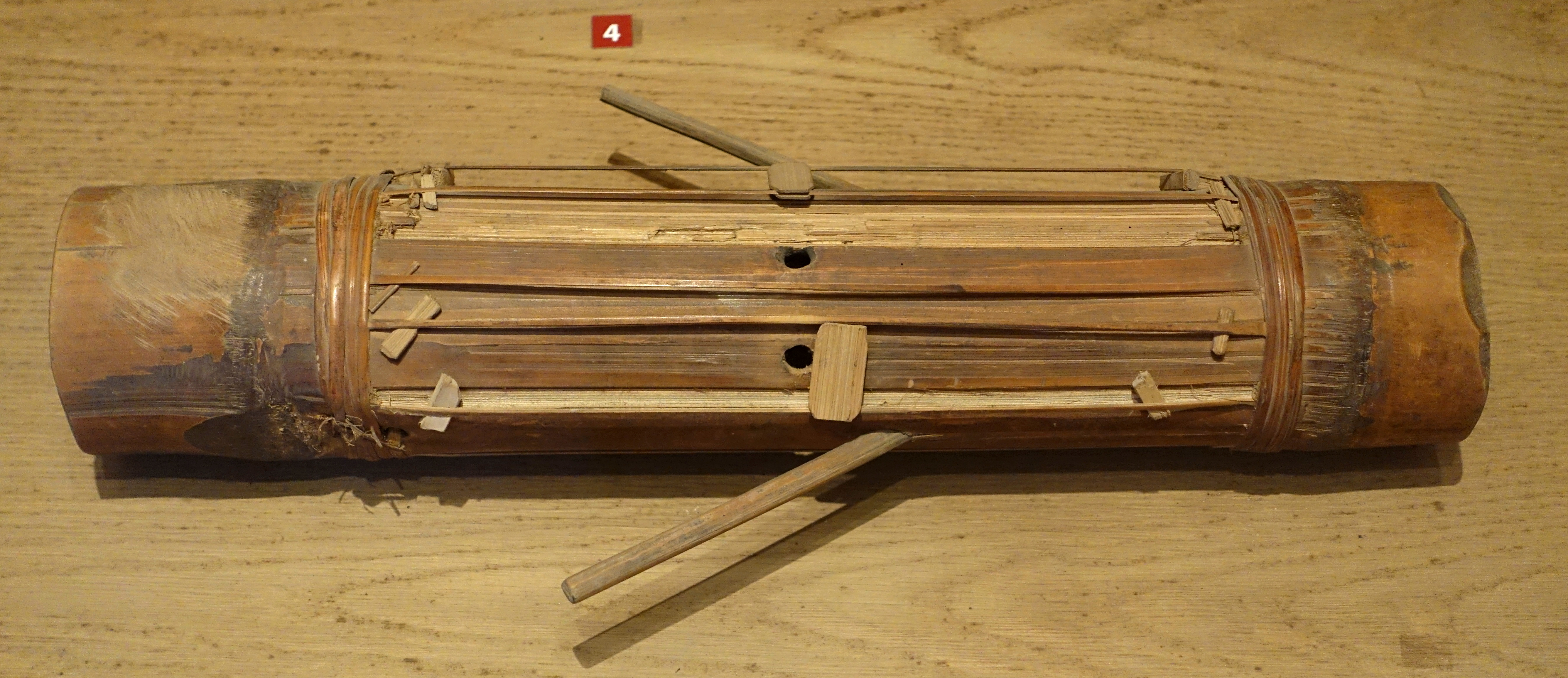 Exhibit in the Vietnam Museum of Ethnology - Hanoi, Vietnam.